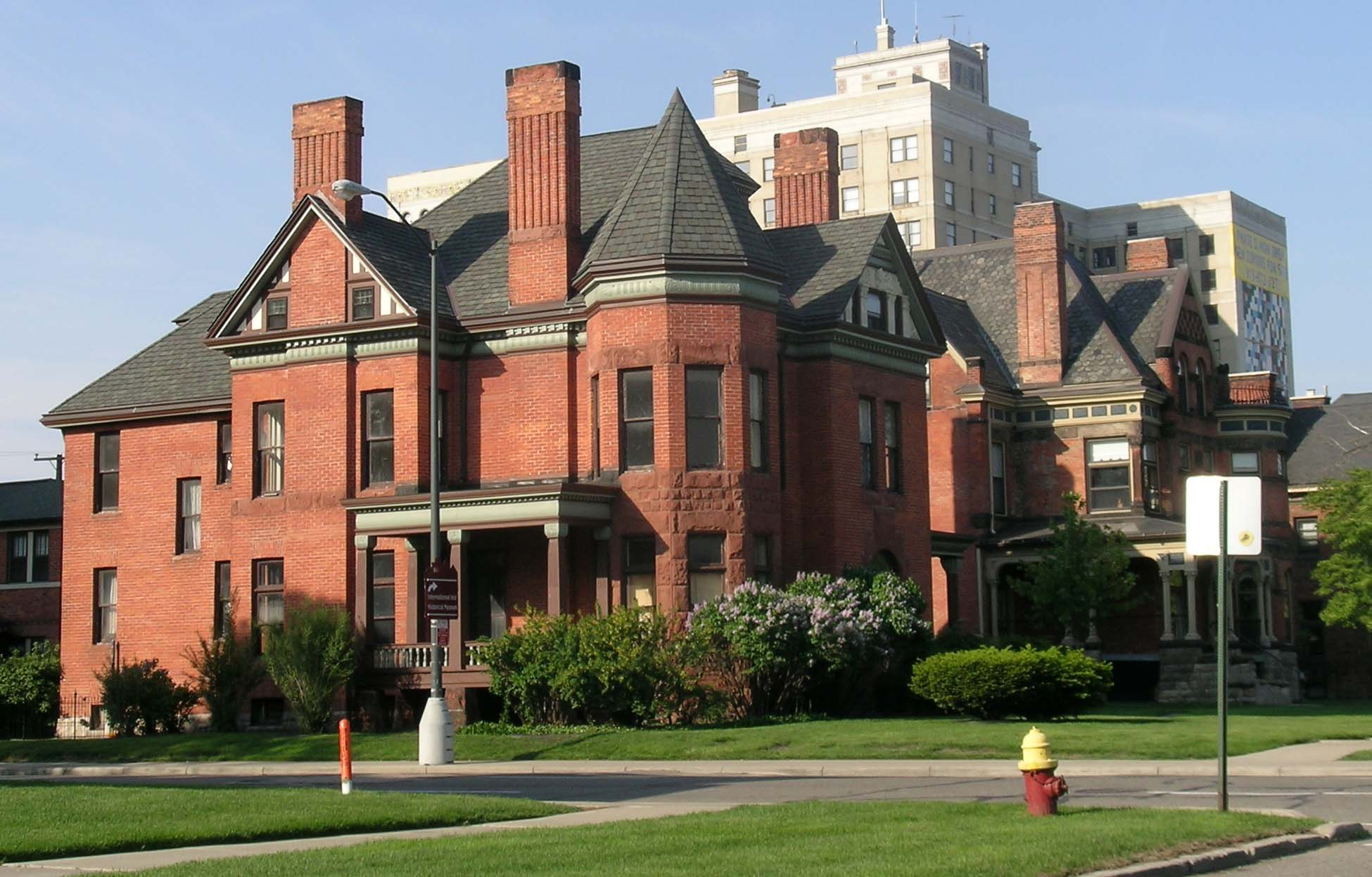 Houses in the East Ferry Avenue Historic District, Detroit, Michigan, United States.